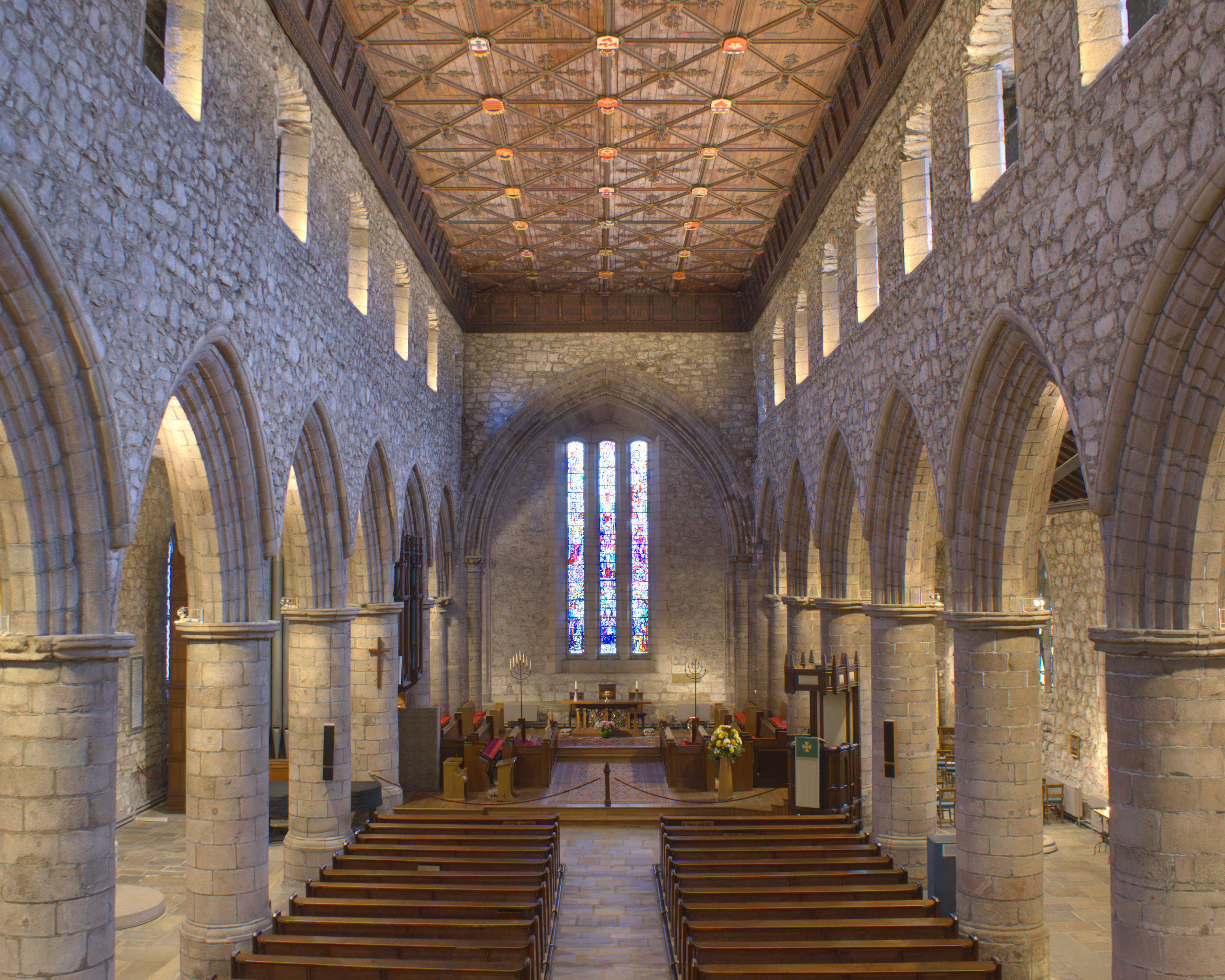 The current church on the site, situated at the south end of Seton Park, was first built between 1350 and 1520. Various additions over the years have been made. Including a central tower constructed by Bishop Elphinstone, the founder of the University of Aberdeen. Sadly, the central tower collapsed in 1688. This cathedral is a such a welcoming place to visit - if you're in Aberdeen, you should drop in.